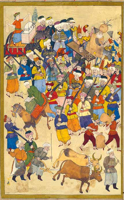 Procession of the guilds. Shown are the bakers with an oven, bread, and in the lower part farmers with wheat. Ottoman miniature painting, from the Surname-ı Vehbi, kept at the Topkapı Sarayı Müzesi, Istanbul (Inv. 9561/71b)